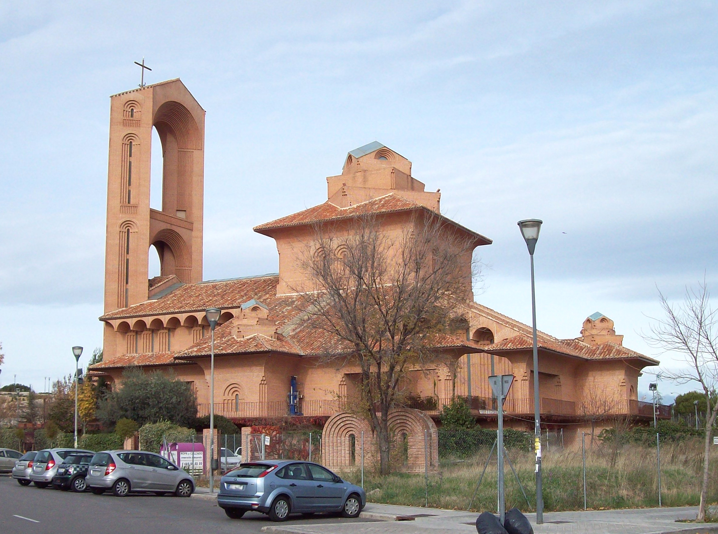 View of Santa María de Caná Church in Pozuelo de Alarcón (Community of Madrid, Spain).